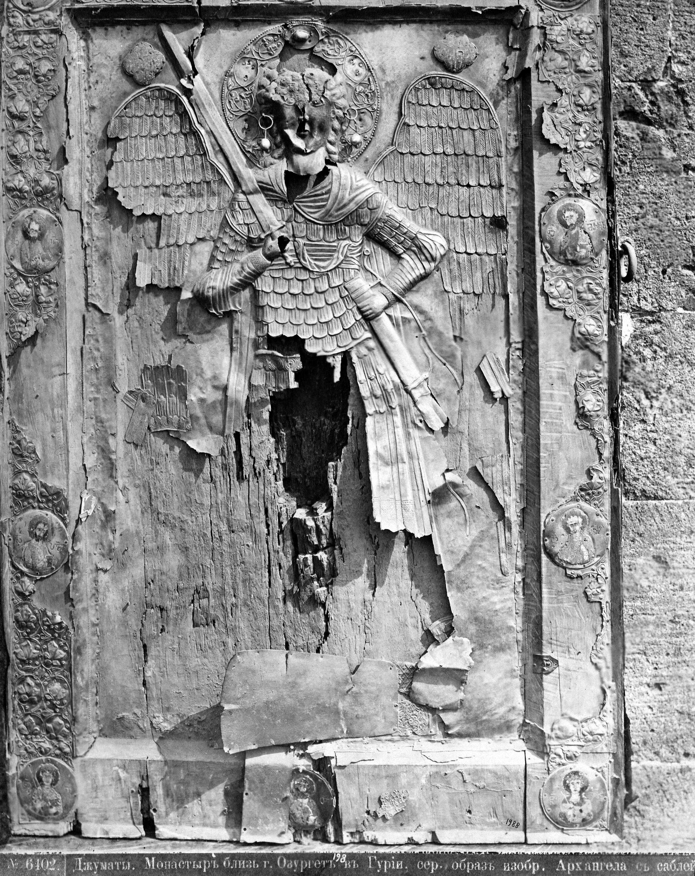 Archangel Michael icon of Djumati church